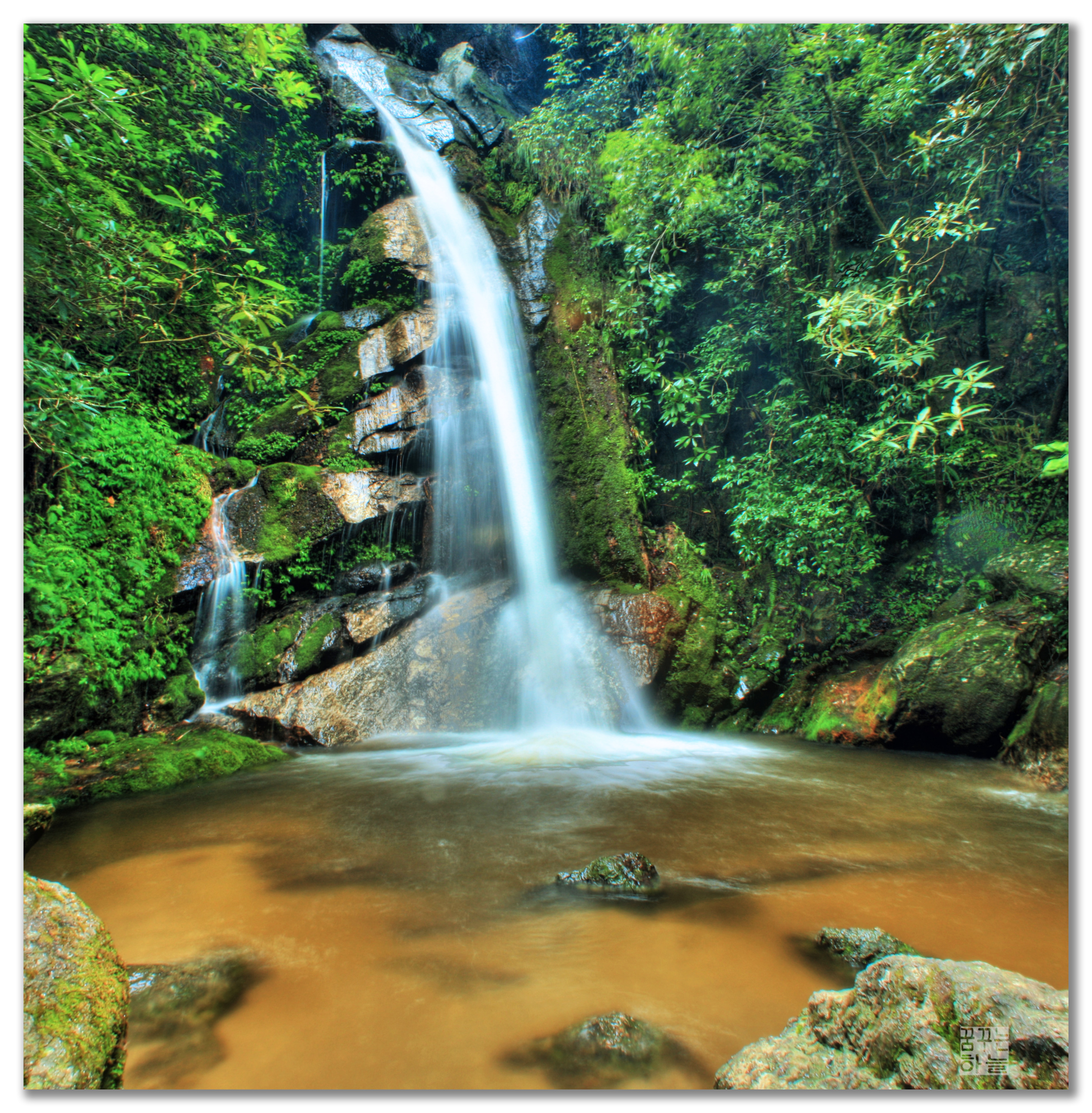 The name says it all ‘Sundarijal’ - ‘the beautiful water’. Monsoon had made her a little more gorgeous. Not everything looks nice when it falls. But she was falling all over and believe me, she looked even prettier when she fell. It was already breathtaking to see her dancing in grace from a distance. Imagine how it would feel to cuddle up with her all day long. Last week I had a Canyoning experience at Sundarijal. It was a pure raw adventure. I should say its a MUST try adventure sport out there. More pictures are published here. Explored! :) | Facebook| Web | trackback